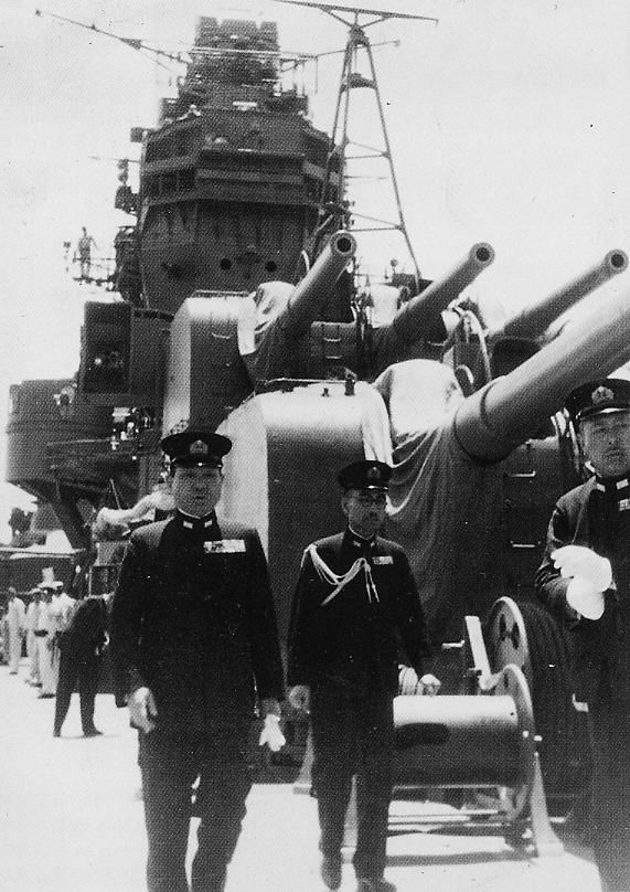 On the board of the Japanese cruiser Ōyodo anchored in Kisarazu: ADM Soemu Toyada (left; C-in-C of the Combined Fleet), CDR Haruo Kuwahara (middle; assistance staff officer) and RADM Sakae Terayama (right, fleet engineer); May/June 1944.